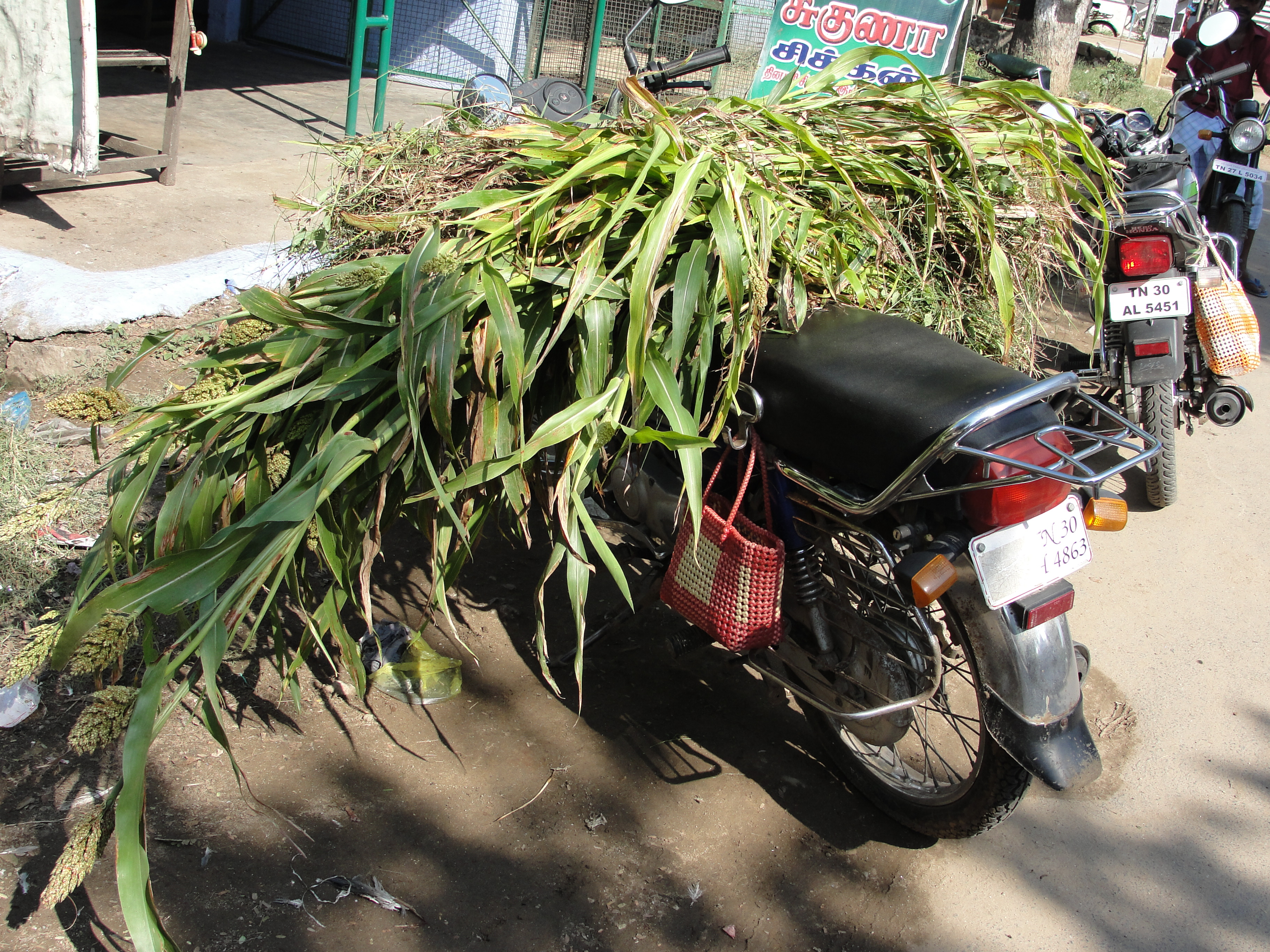 A scene of sorghum transportation in Salem, Tamil Nadu, India.